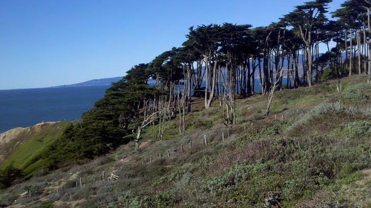 A photo of Lands End in San Francisco, California. The entrance to the Golden Gate is in the distance, with the Marin Headlands and Mount Tamalpais in the background behind the trees